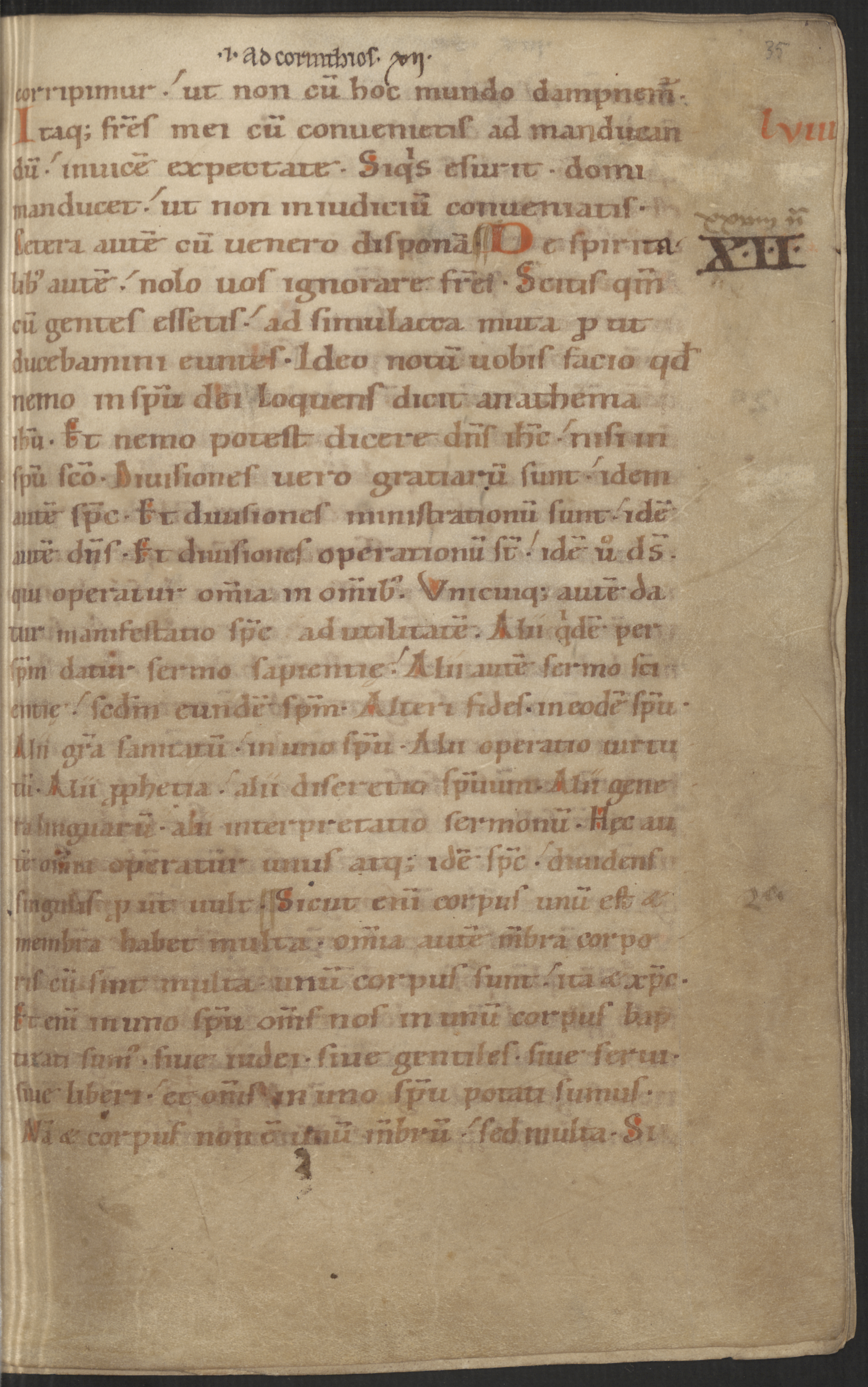 Ms.34, fol. 35r.